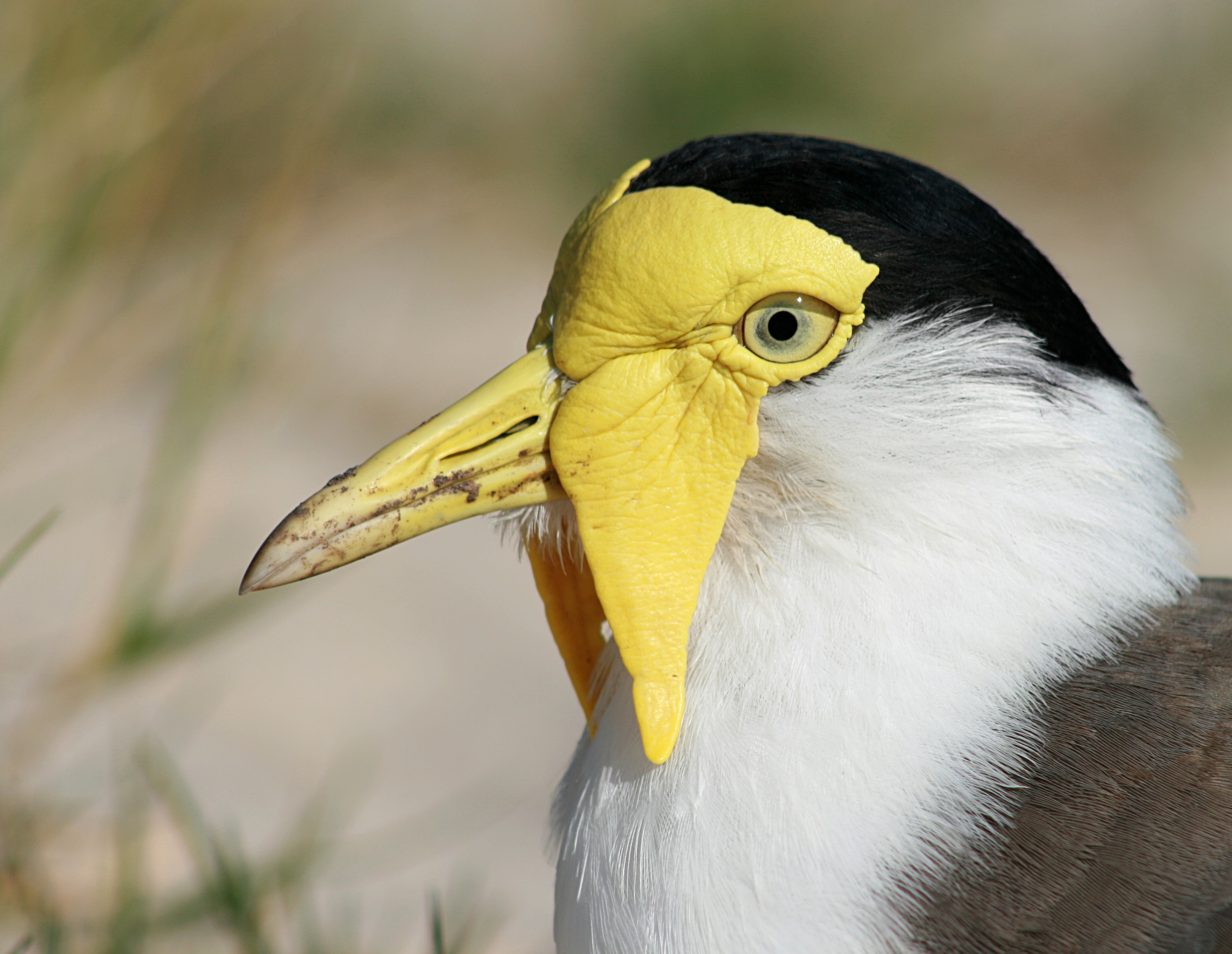 A bird from the northern subspecies of the Masked Lapwing (Vanellus miles miles) on the sandy foreshore of Cairns, Queensland, Australia. The northern species can be identified from the fact that it does not have a black neck stripe separating the white from the brown.